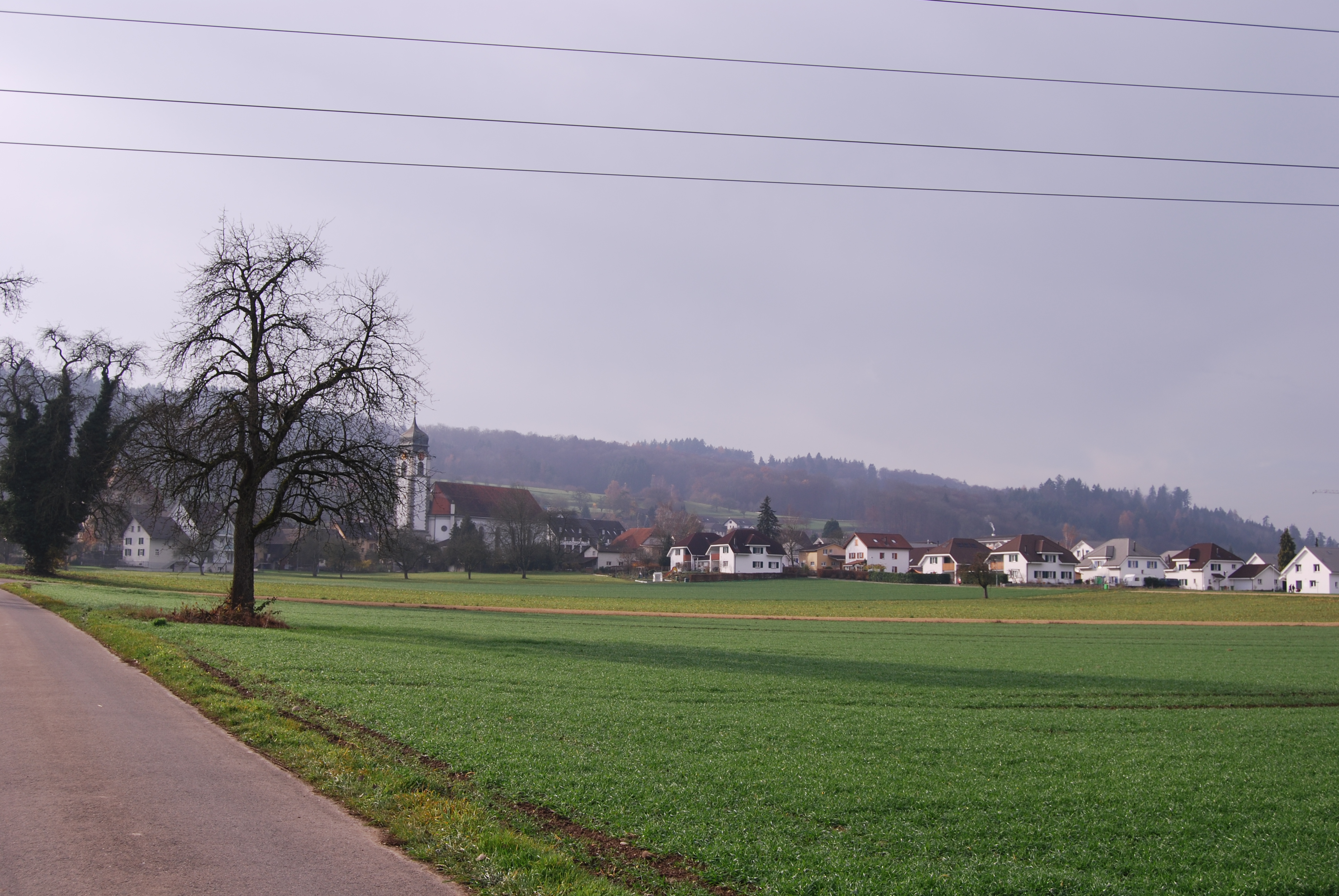 Tägerig, canton of Aargau, SwitzerlandEsperanto: Tägerig, Kantono Argovio, Svislando